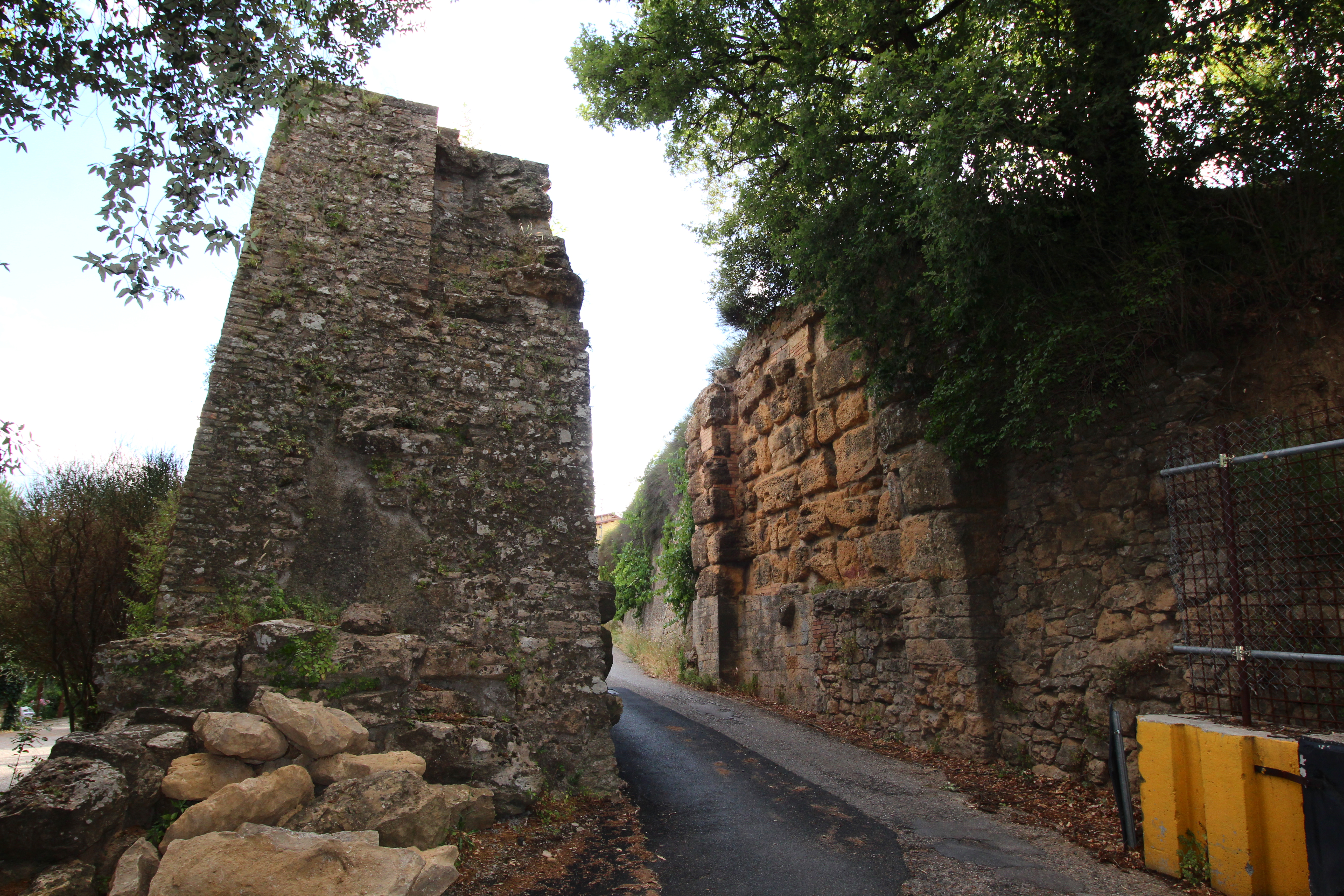 Porta Diana, etrucan city gate in Volterra, Province of Pisa, Tuscany, Italy